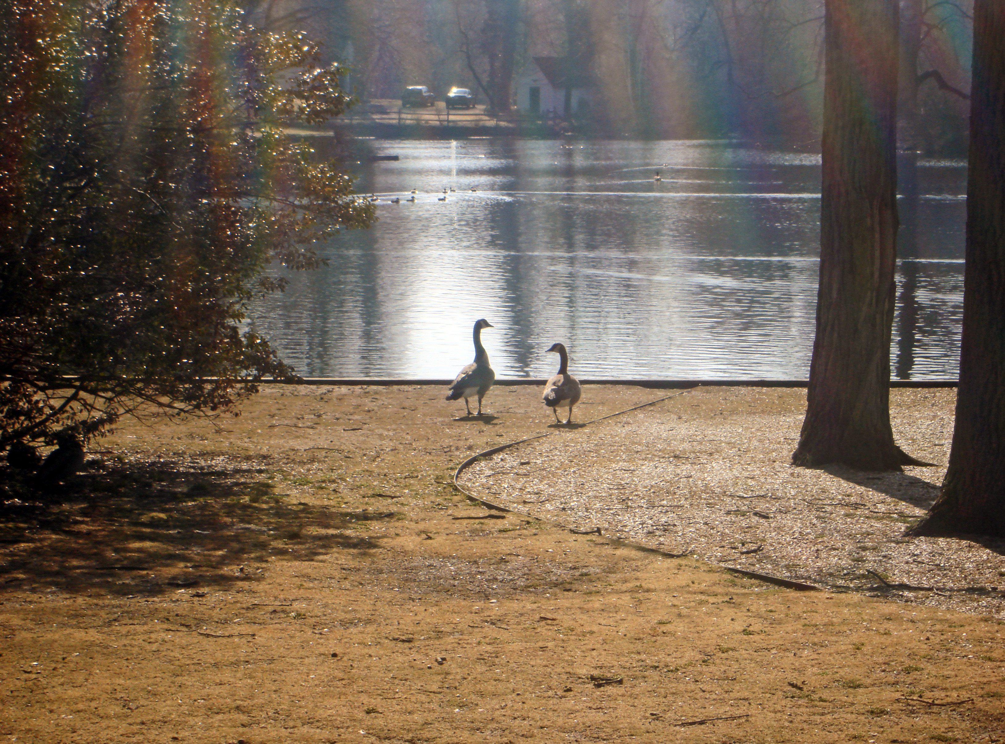 Stony Brook Mill Pond